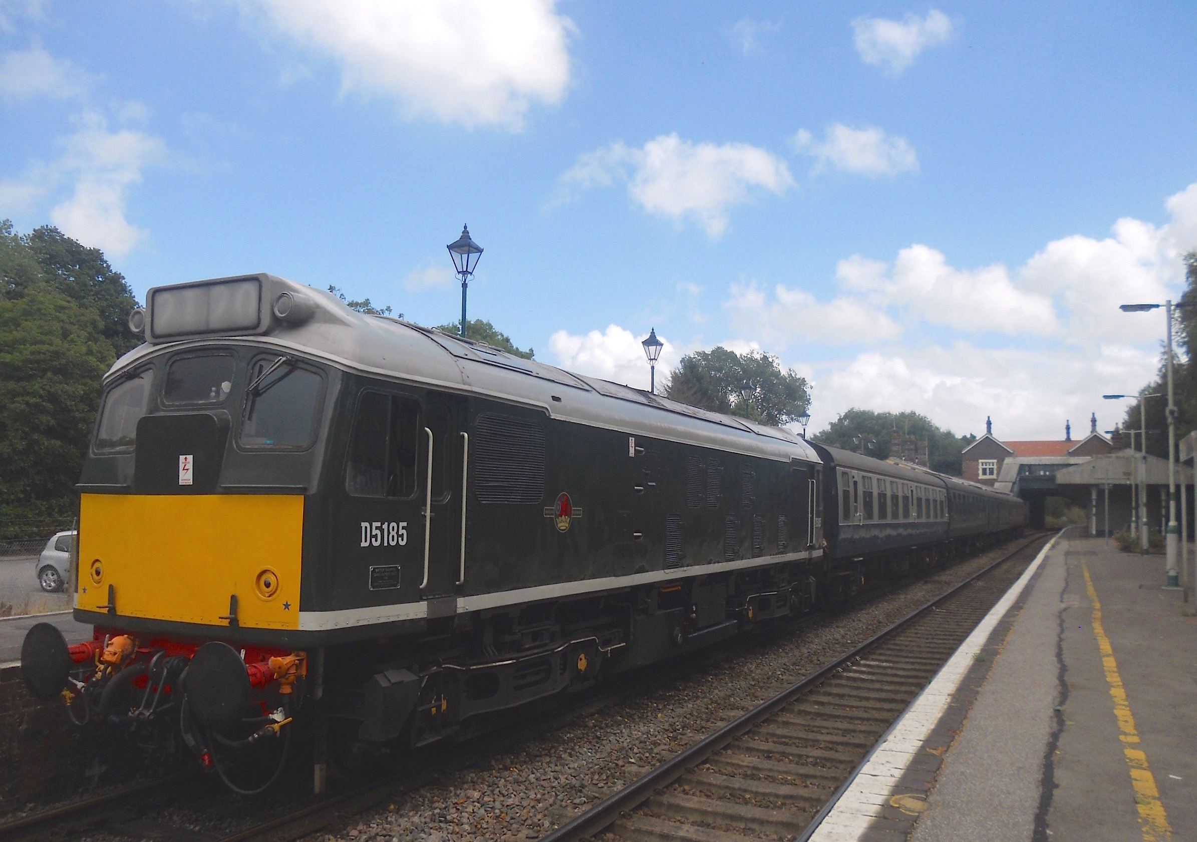 British Railways Class 25 D5185 and train are seen at Eridge on the Spa Valley Railway